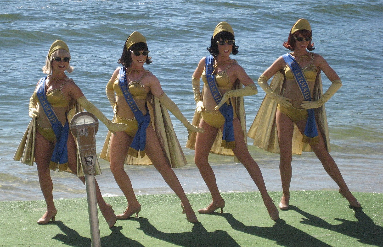 Meter Maid show at the beach